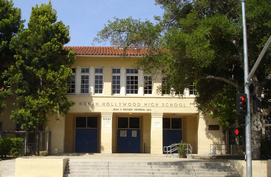 North Hollywood High School - John F. Kennedy Memorial Hall - This is the biggest building on campus, and the main entrance to the school.